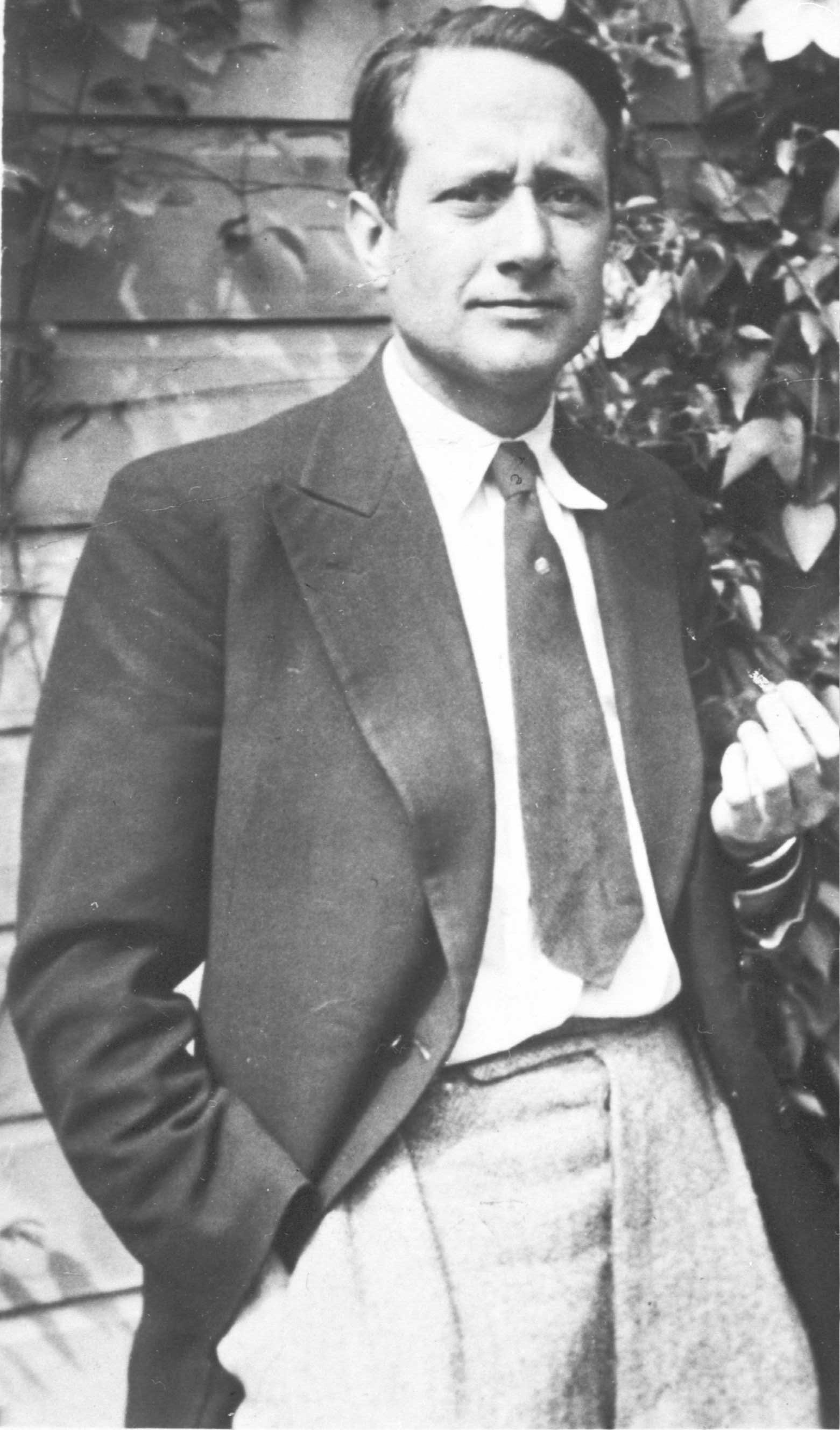 Gerrit Jan van der Veen. Photo in a series with his family, around 1940